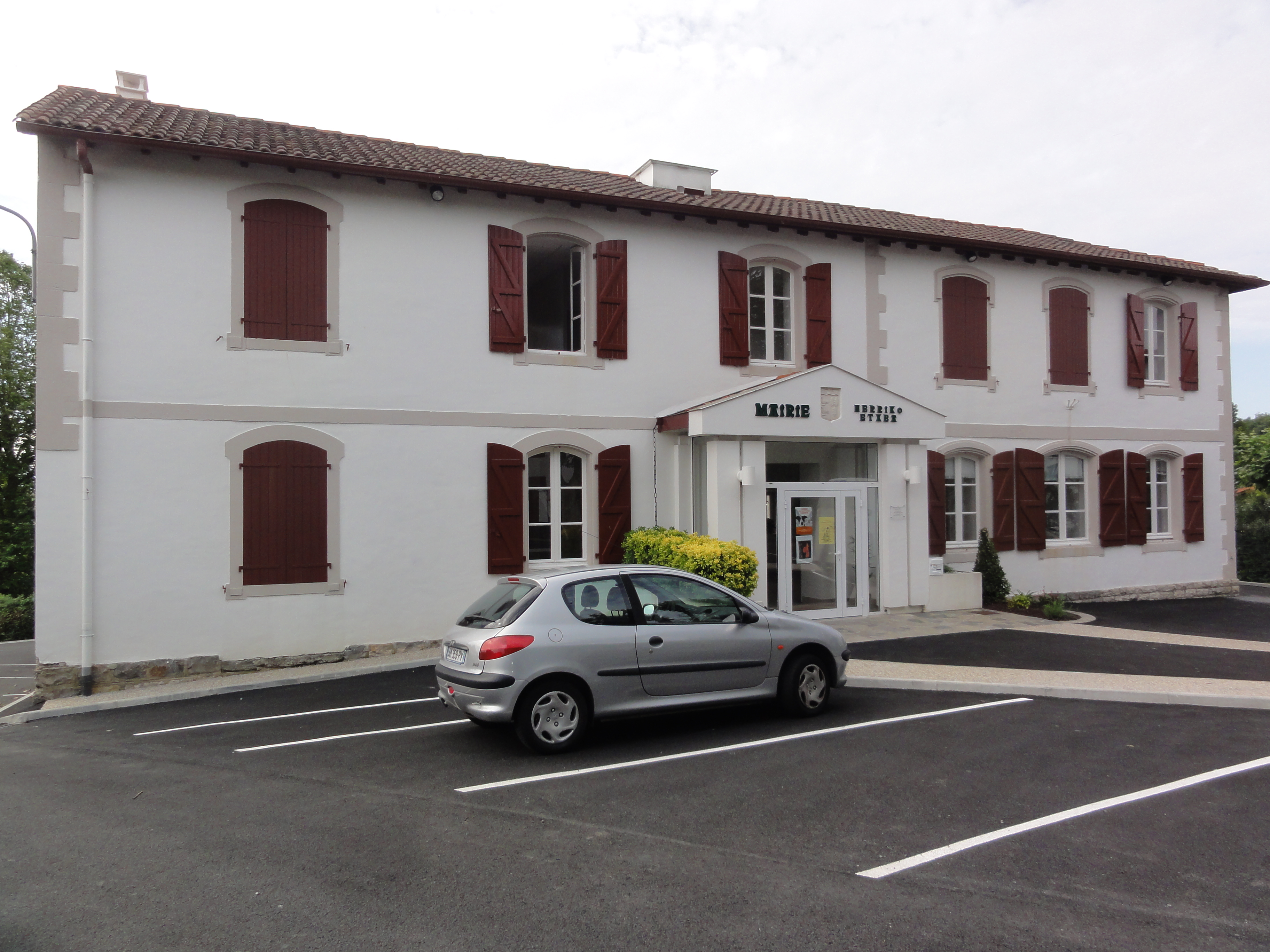 Bassussarry townhall